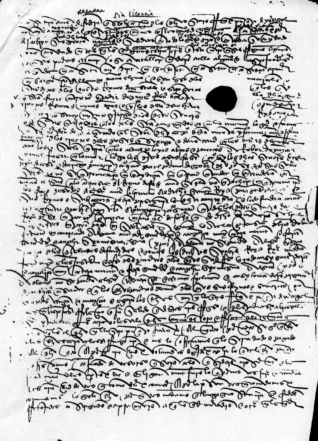 Treaty of Alcaçovas. Publication of the treaty in Seville, March 14 1480. 2nd page.